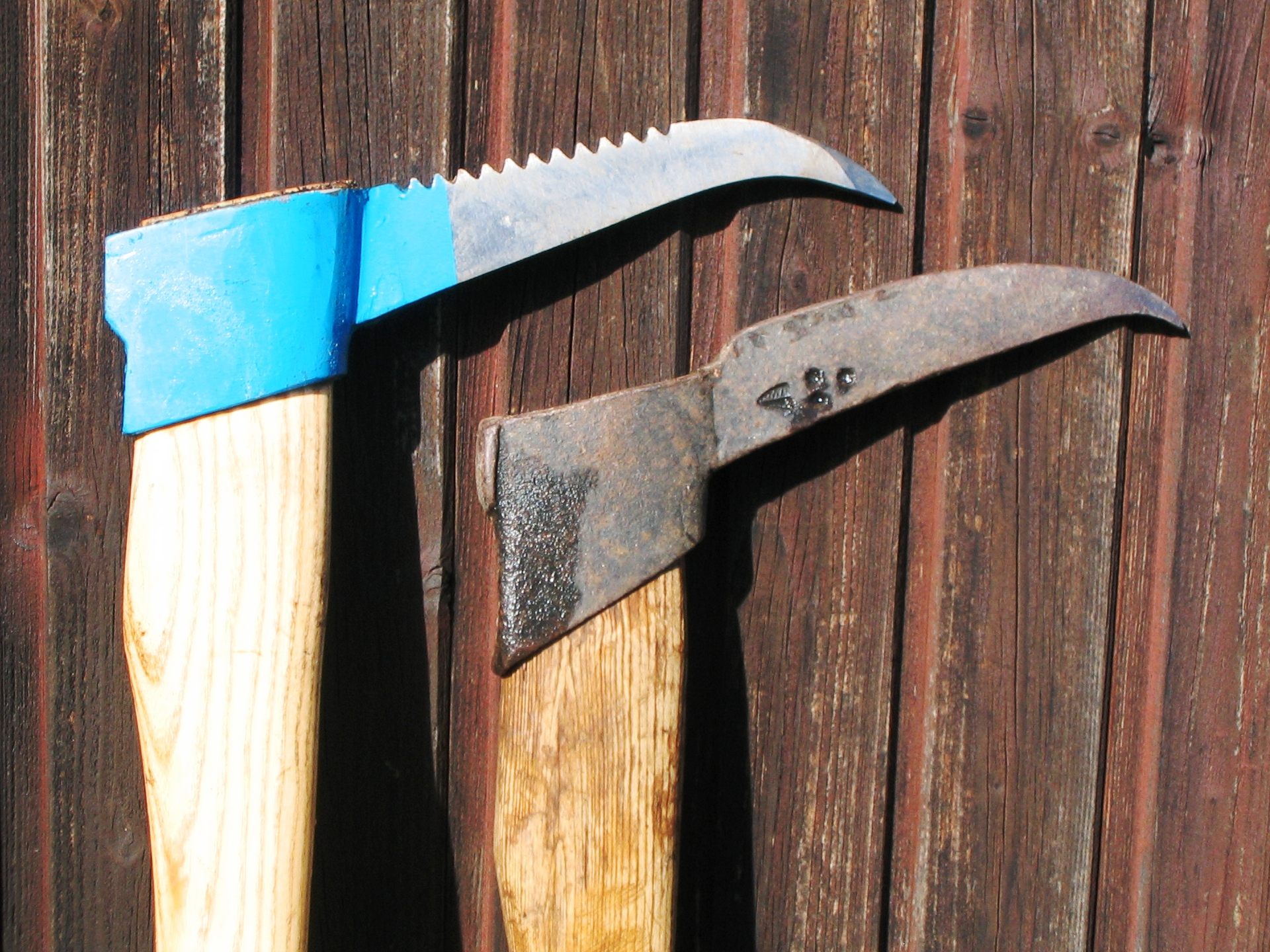 Forest workers tool for moving logs called a hookaroon, very similar to a pickaroon